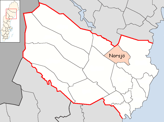 Norsjö Municipality in Västerbotten County Designed by me. Mere outlines are a PD source from